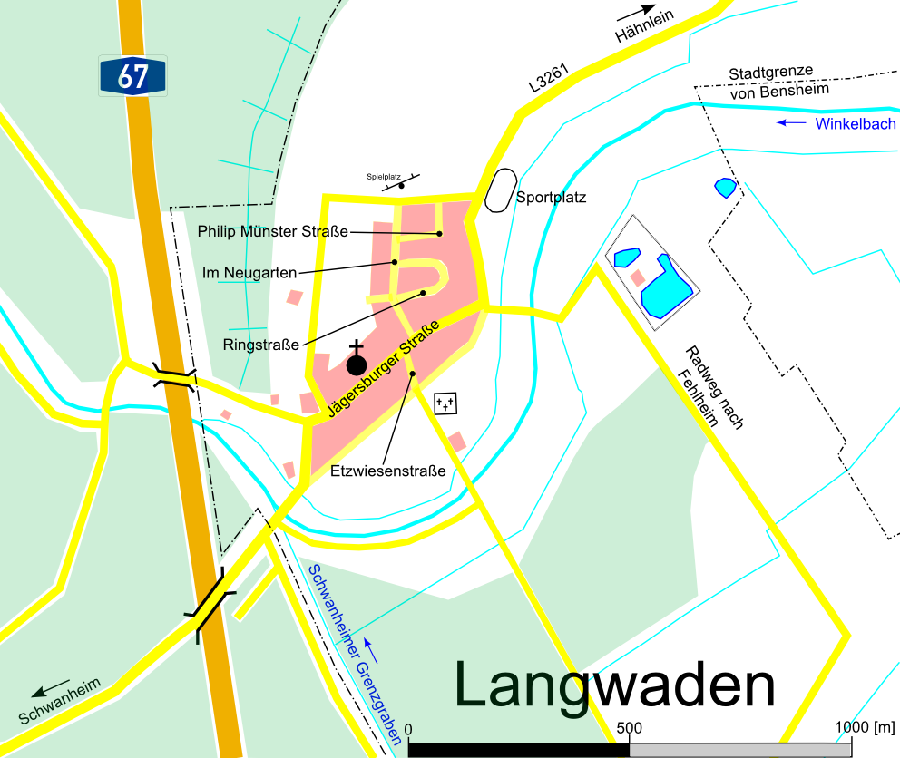 Map of Langwaden, district of the city of Bensheim (Hesse, Germany). SVG-Master-File converted into PNG.